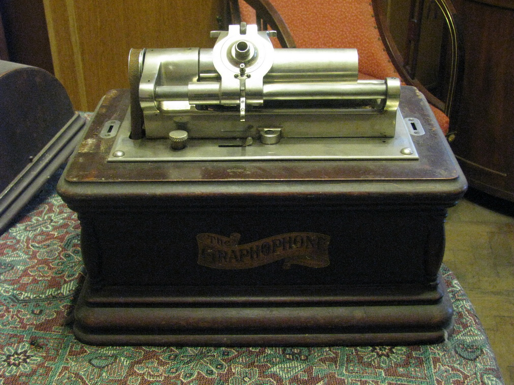 Graphophone from Kolessa private archive in Lviv, Ukraine. It was used by Osyp Rozdolsky to record Ukrainian folklore. Front view.